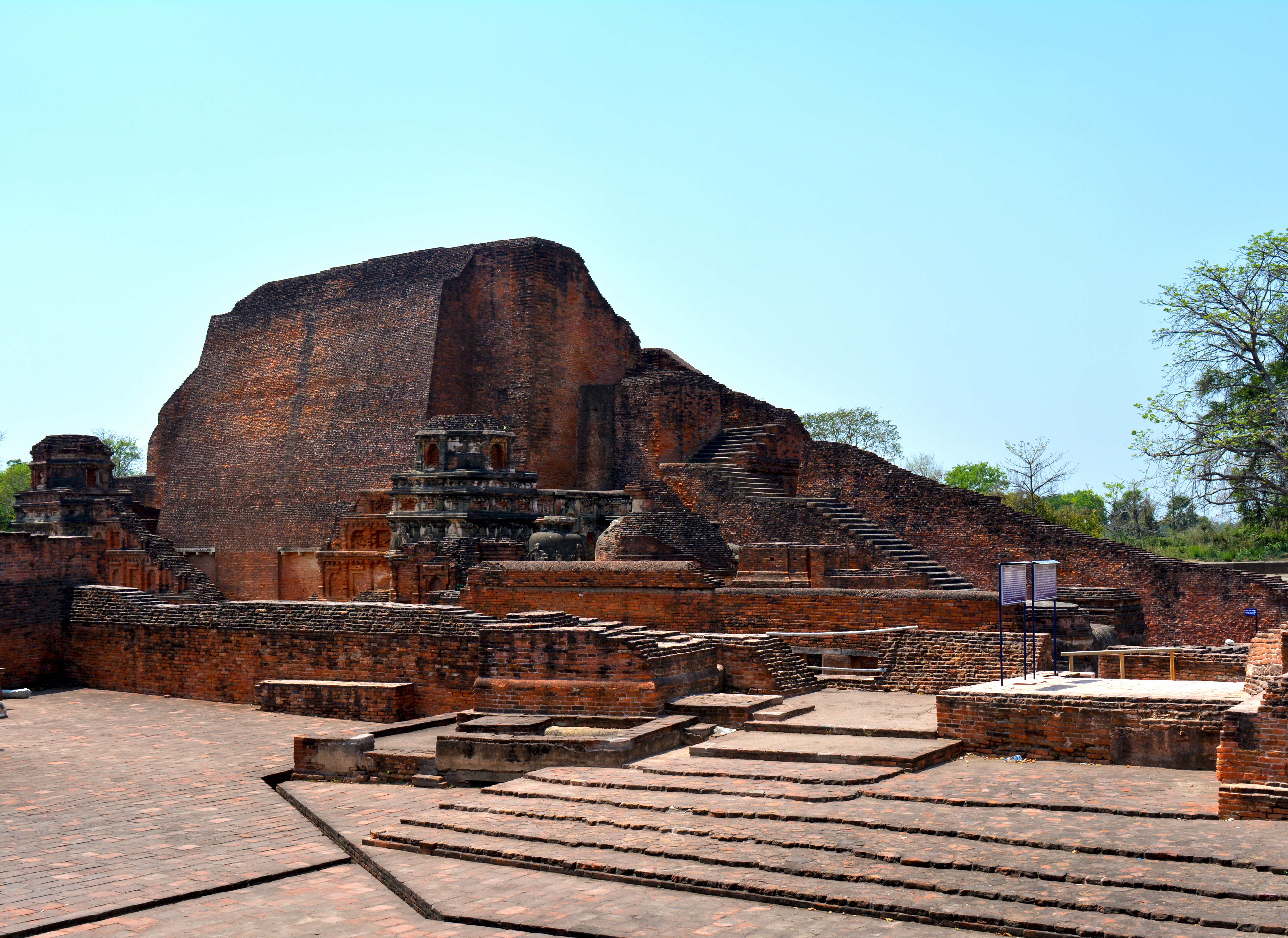 All mounds, structures and buildings enclosed in the acquired area